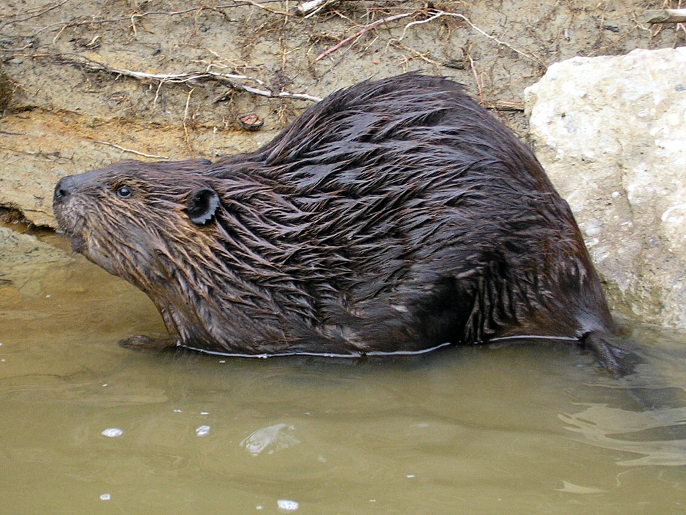 I came across this handsome animal (Castor canadensis) on a recent fishing excursion. Unfortunately, I could not get a better shot of the tail, which is very broad and flat.